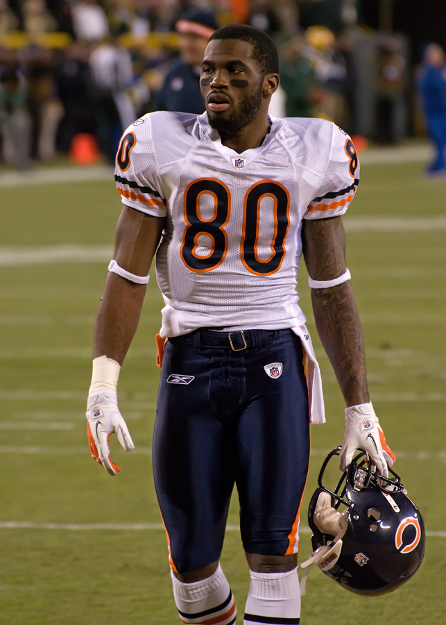 Chicago Bears vs. Green Bay Packers at Lambeau Field on December 25, 2011. Photo by Mike Morbeck.